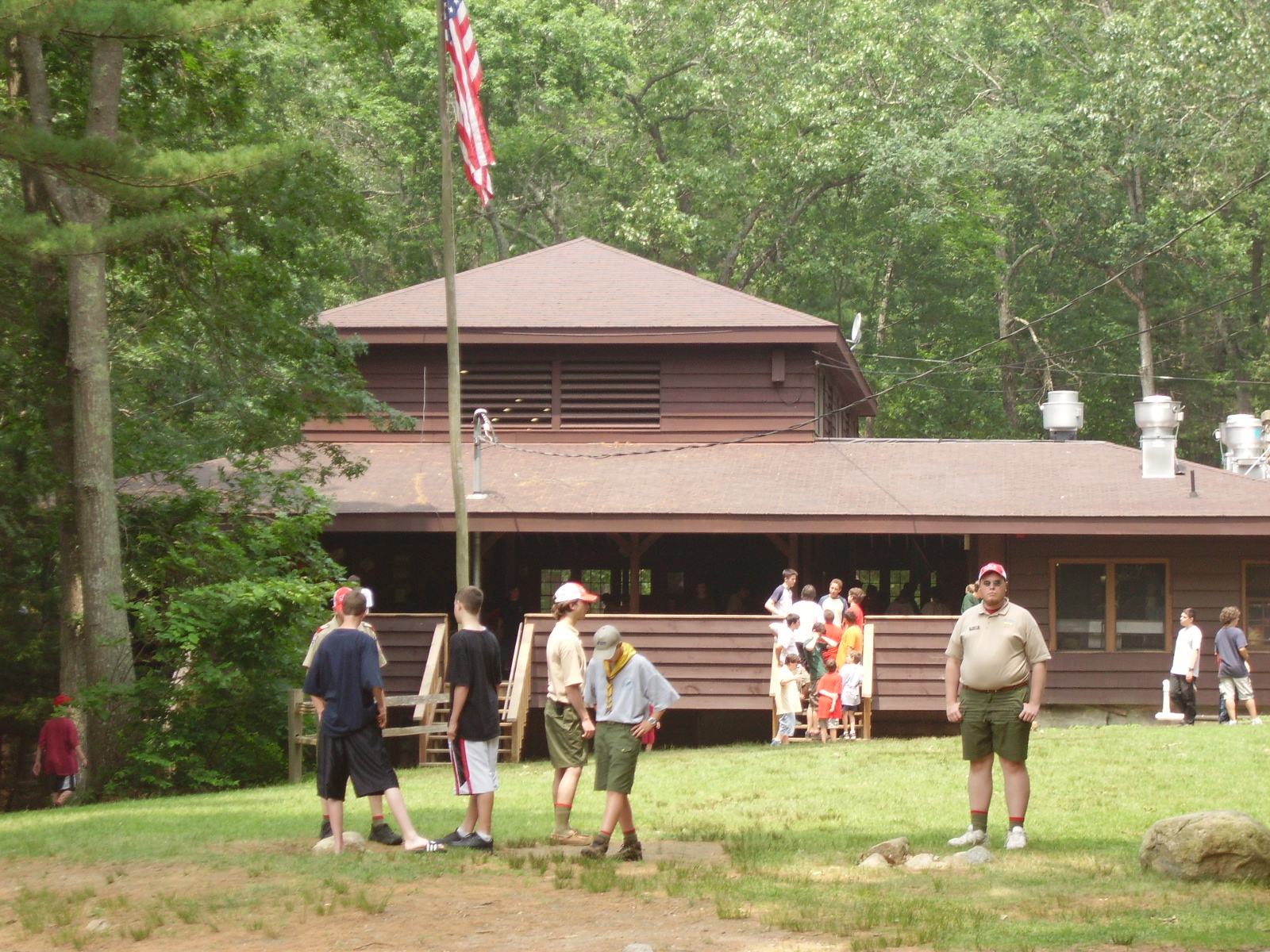 Camp Yawgoog Medicine Bow Week 2 at lunch time Shown: Michael Fricker, BP Scoutmaster